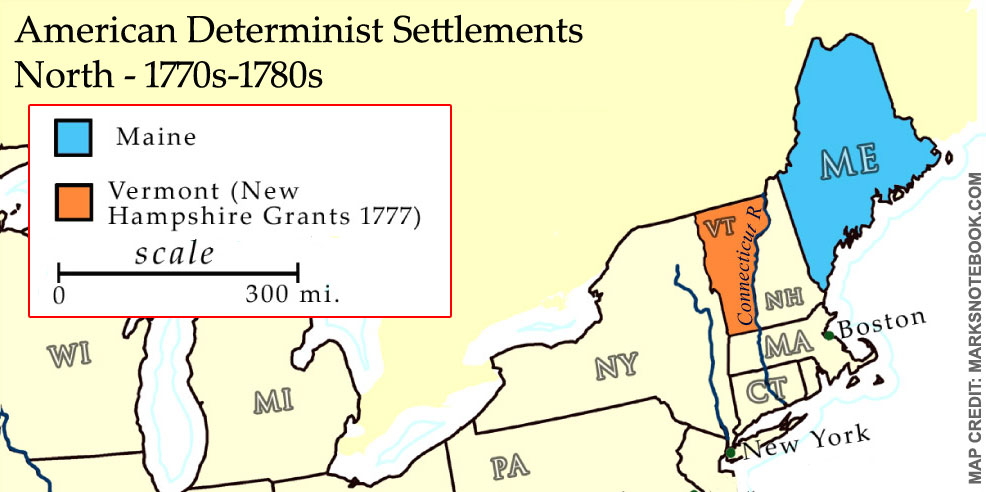 North American regions 1770s-1780s in which settlements were established that sought independence from eastern sea-board colonies or states.